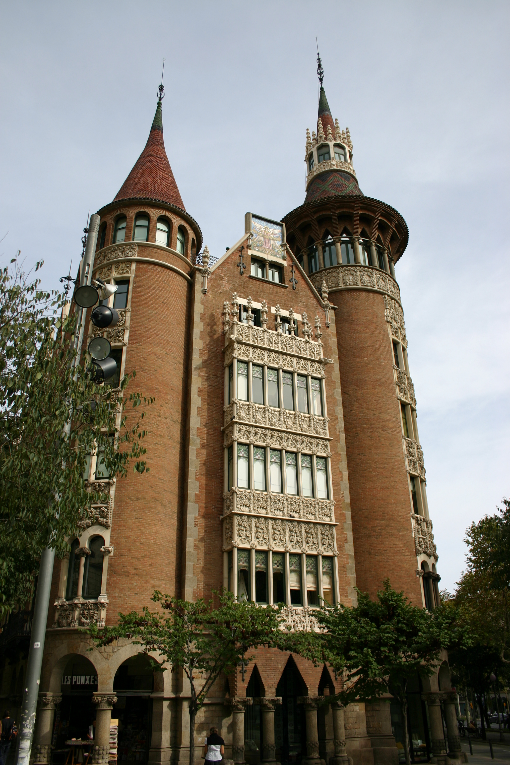 Casa de les Punxes by architect Josep Puig i Cadafalch, Barcelona